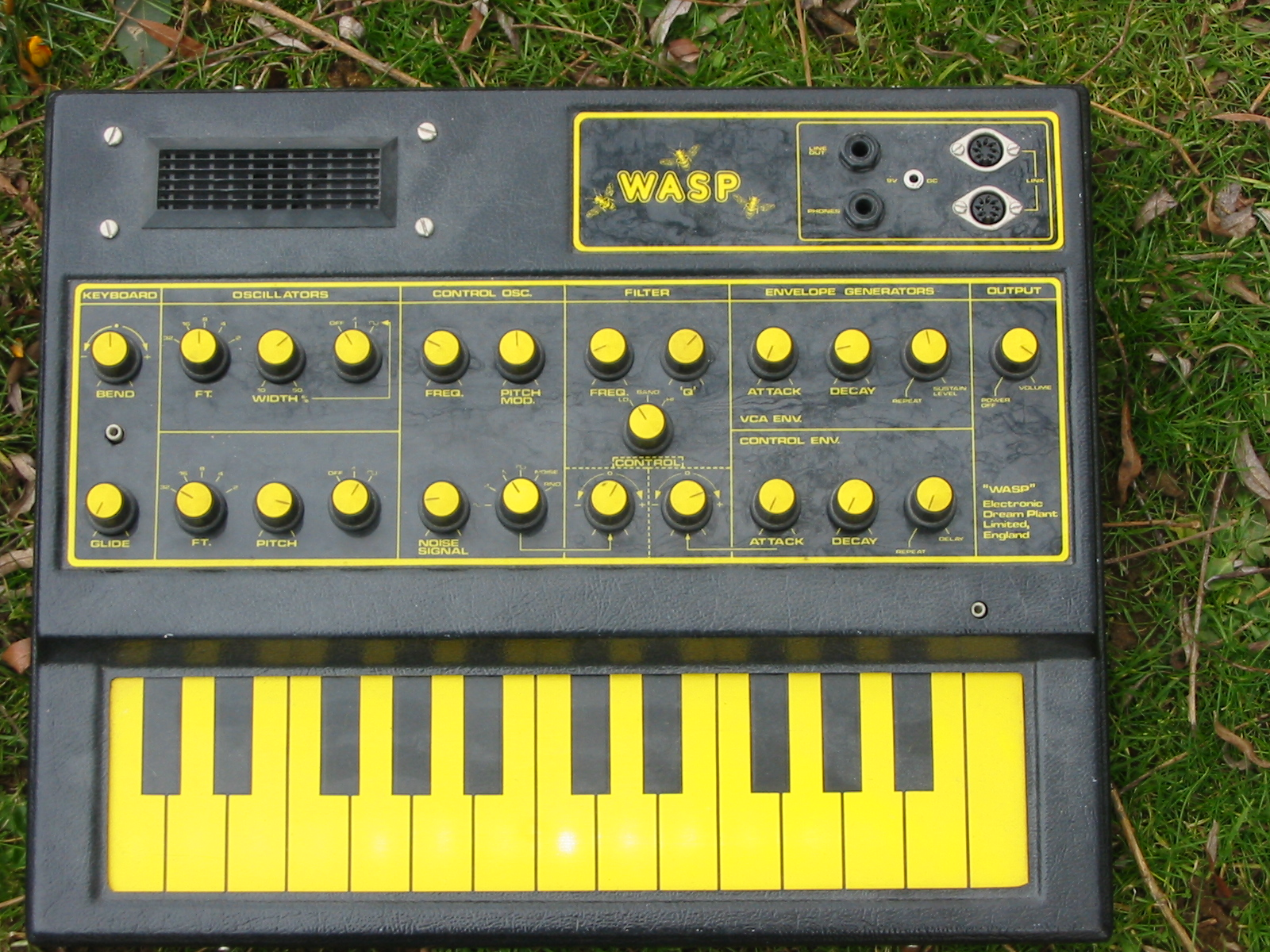 Original photograph by the author, JulianFincham. Freely distributed, so long as fales ownership is not implied (eg auction pages etc) — GNU Free Documentation License